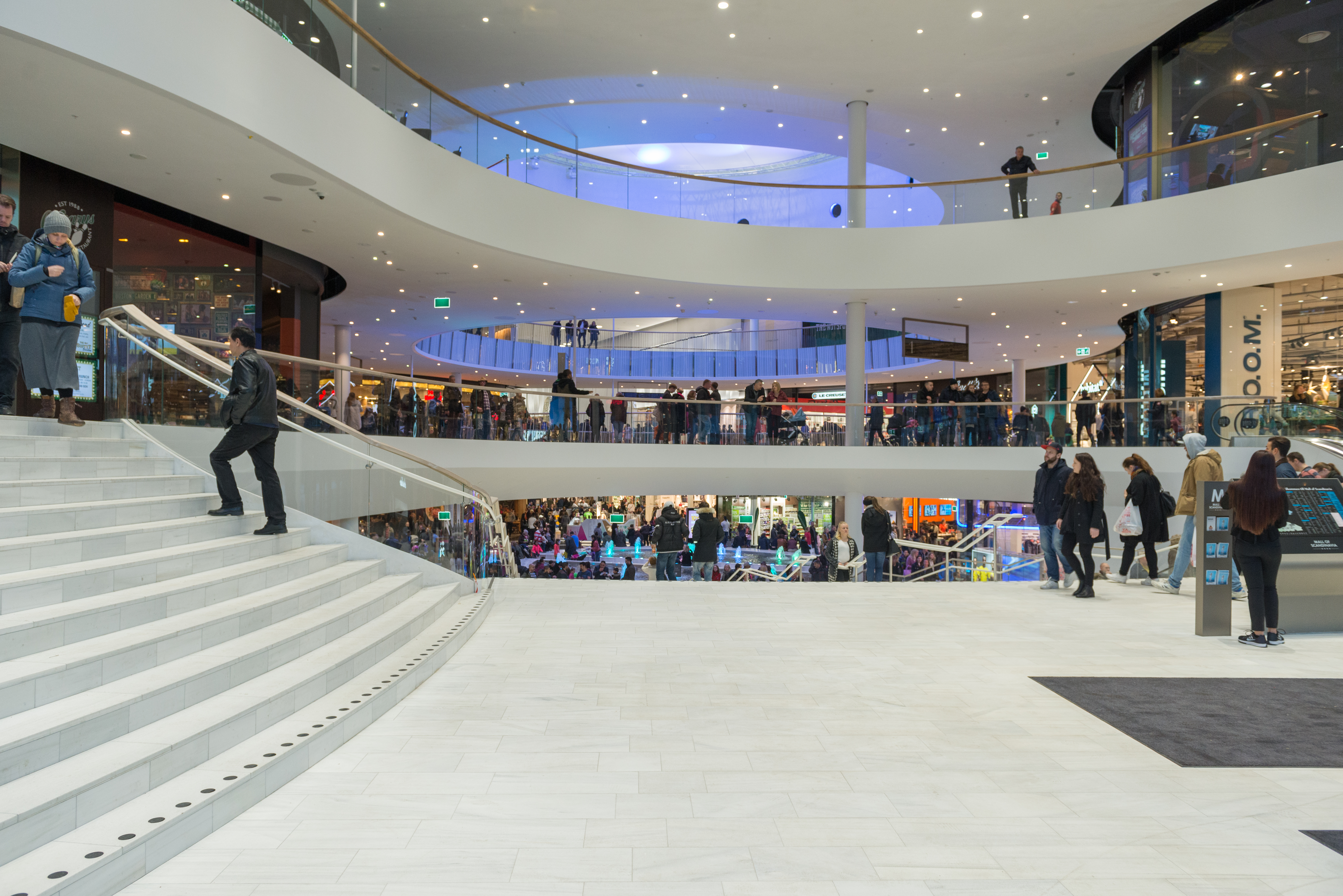 The "Mall of Scandinavia" shopping mall in November 2015. Arenastaden, Solna (Stockholm).